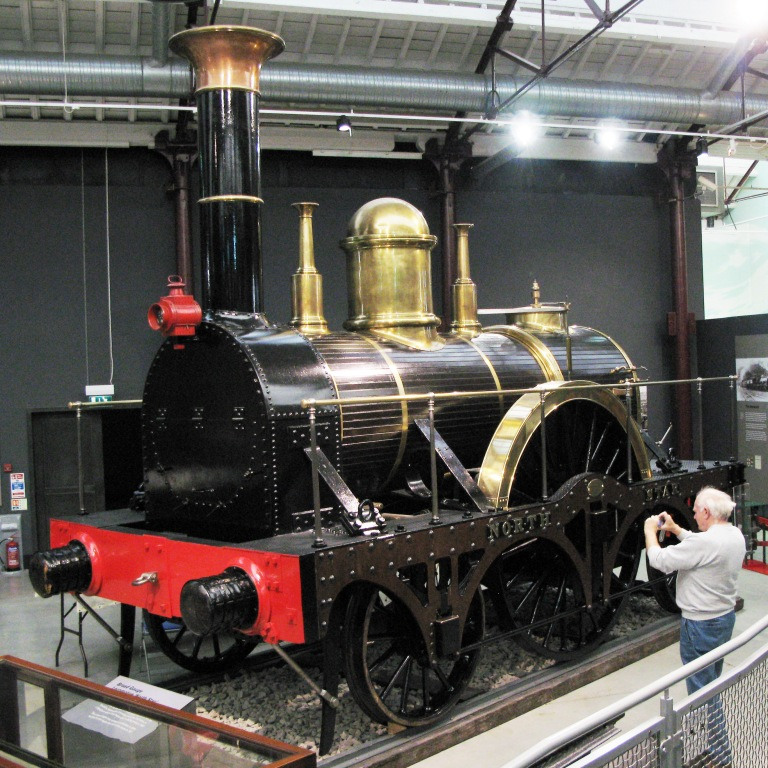 The Great Western Railway broad gauge North Star, on display at the Steam Museum, Swindon, England.